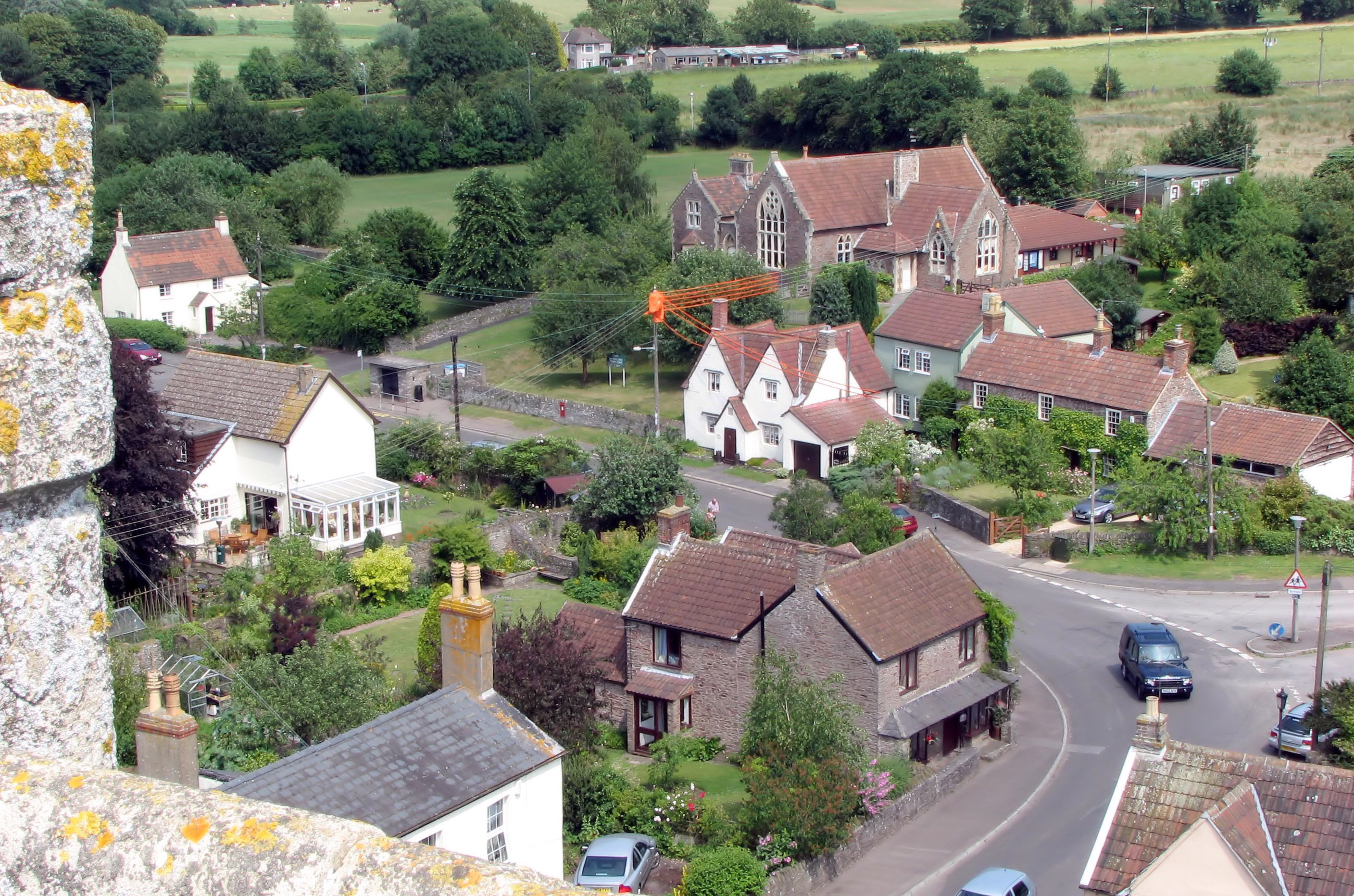 Iron Acton Church of England Primary School, Iron Acton, near Yate, South Gloucestershire, England, seen from the tower of the church. The school was built in 1874. At September 2007 the school had 74 pupils. (Note to the school: you are very welcome to use this picture on your school website. No need to ask me for permission).